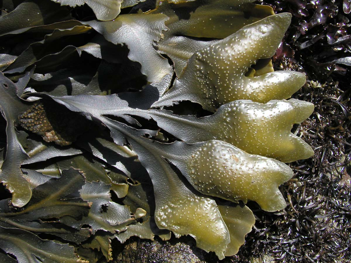 The rockweed Fucus gardneri has many common names, including popweed and bladderwrack. Once mature the tips of the blades fill receptacles with with air and mucilage. Within the receptacles are conceptacles where gametes are formed. These receptacles can be "popped" if pressed too hard. From Bean Hollow State Beach, CA